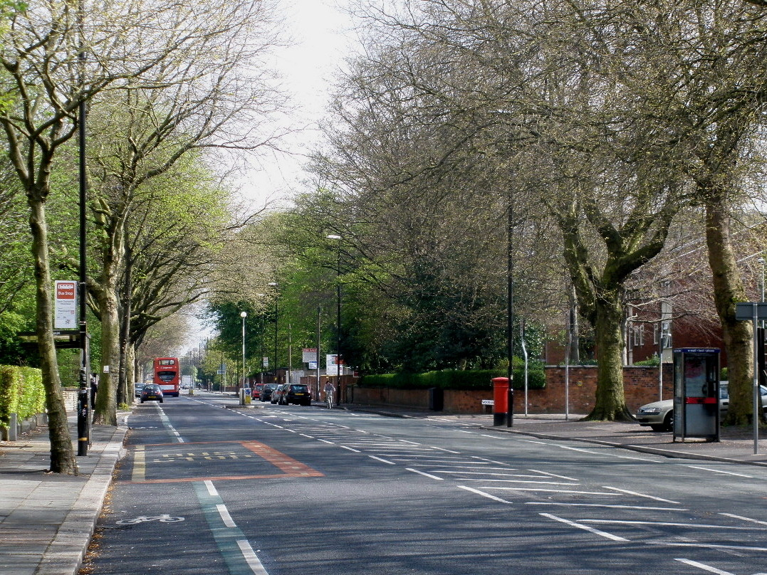 Upper Chorlton Road in the spring - Whalley Range, Manchester